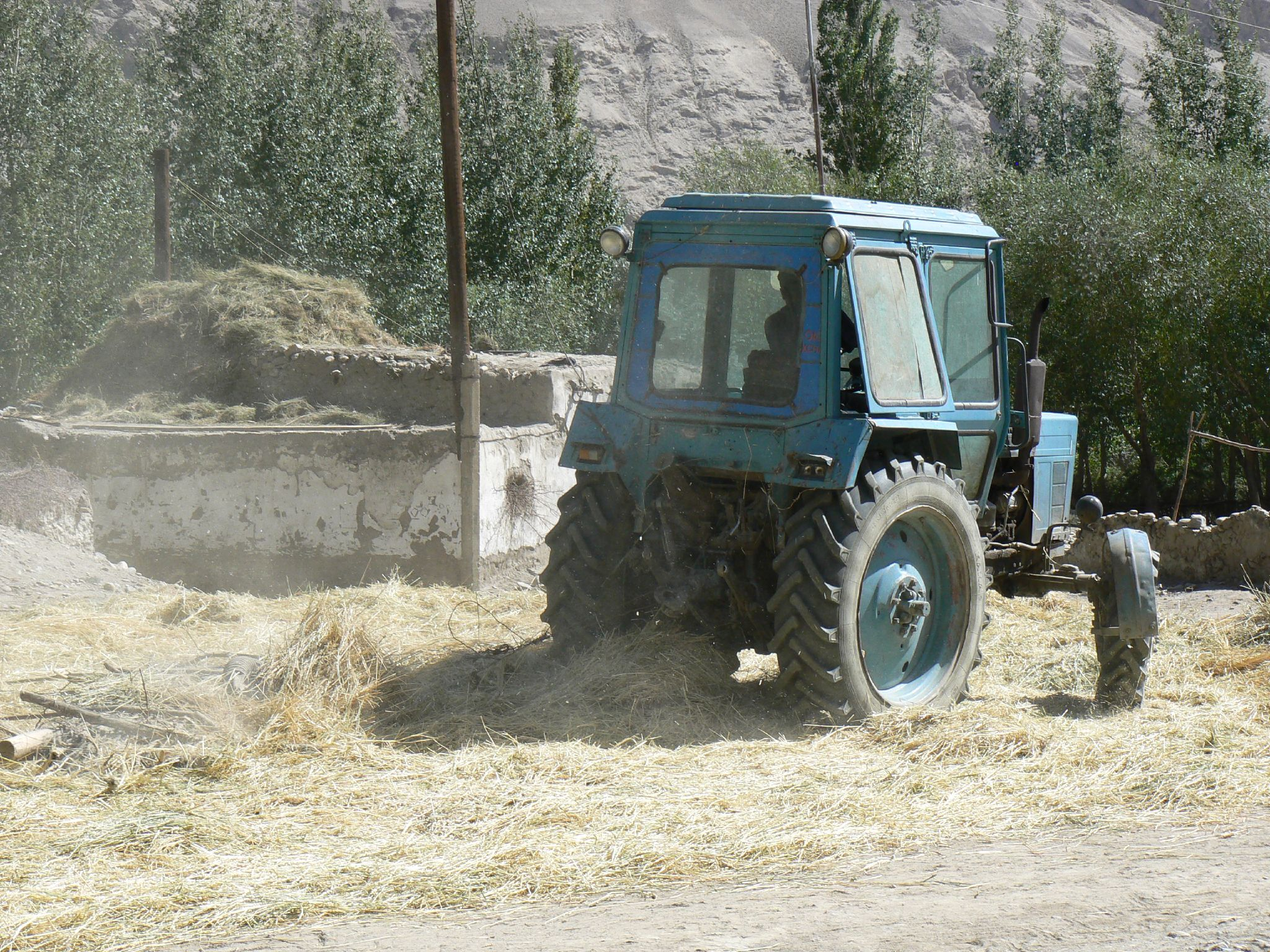 Tractor "Belarus MTZ-82". Tajikistan.